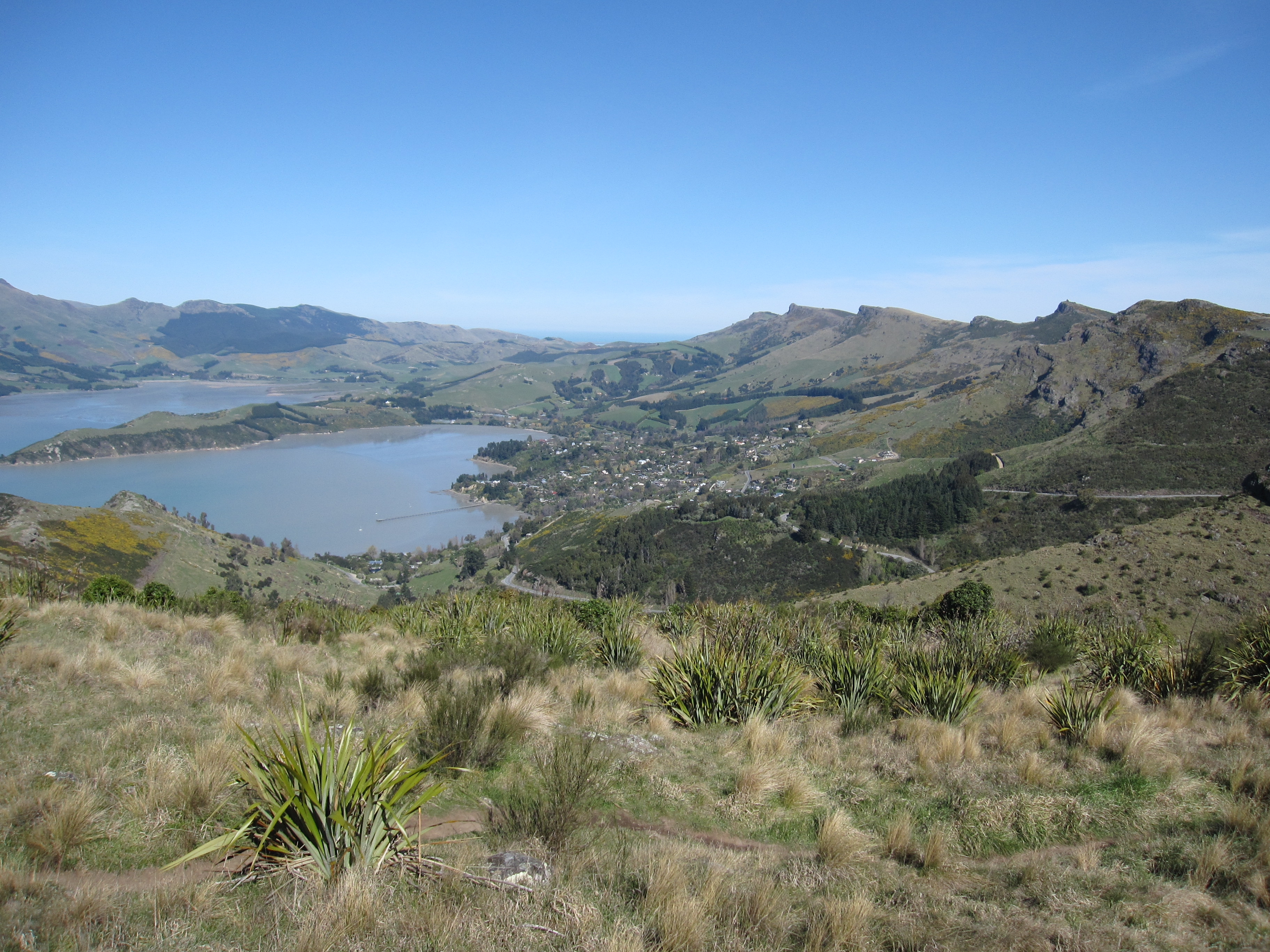 View of Governors Bay.